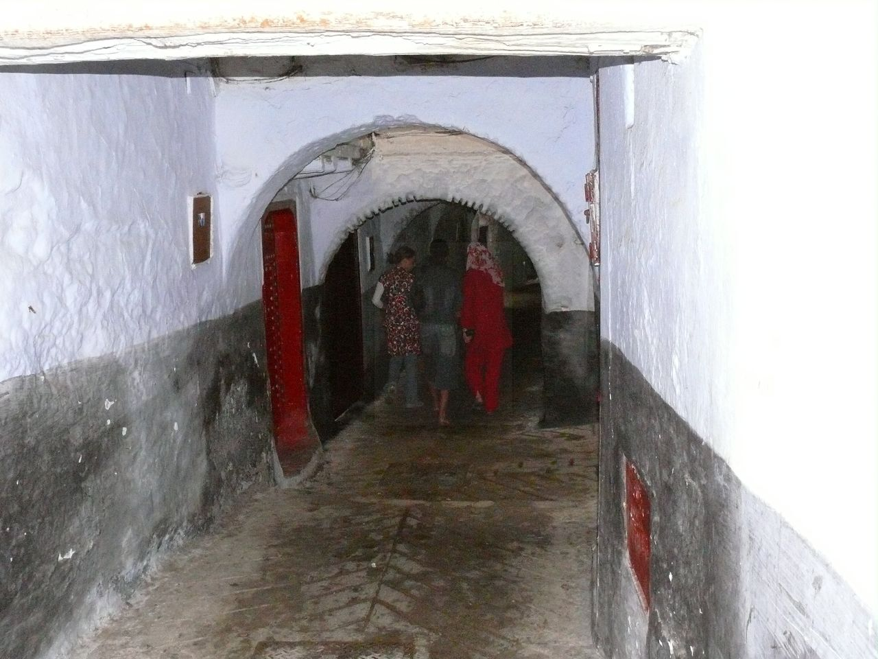 Medina of Tetouan